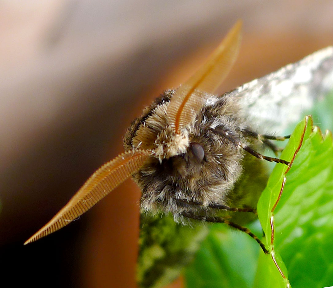 Oak Beauty, feathered antennae